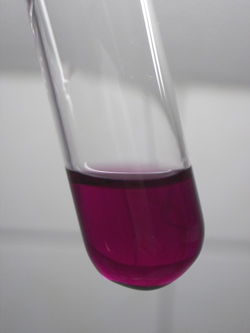 The Zintl ion, Te42+, made by dissolving tellurium in concentrated sulfuric acid